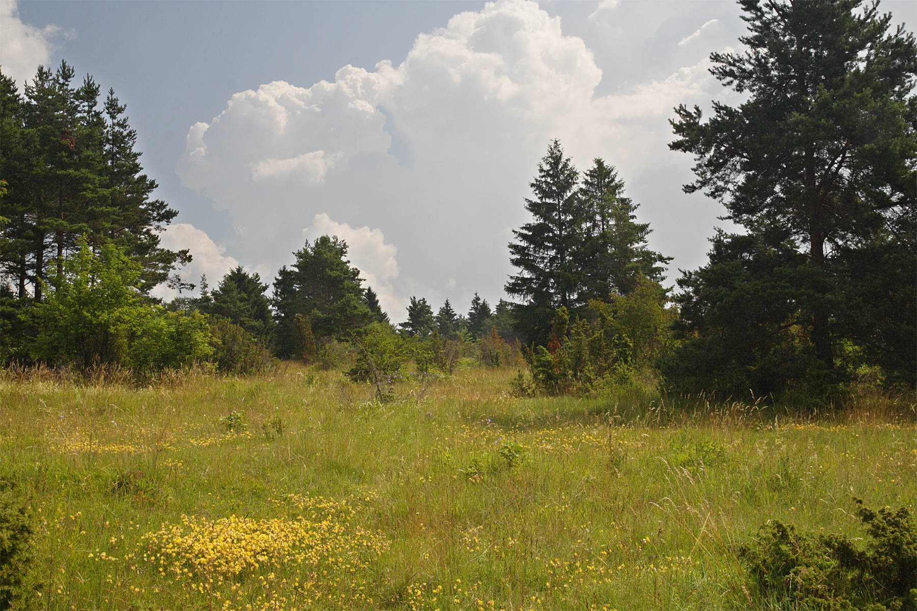 Naturschutzgebiet "Steinberg-Dürrenfeld", 2km south west of Hohenstein. The landscape on the northern part of the Schwäbische Alb), the Alb around Hohenstein,, is characterized by an accumulation of “Kuppen” (domes) and dry valleys. This Naturschutzgebiet and three others close by, represent the contemporary rural Alb very well. The photo reflects the following characteristics: Extensive former grazing, the territory gradually turning into unused, but species-rich, calcareous grassland; in several steps of ecological succession juniper and pinales are taking over.